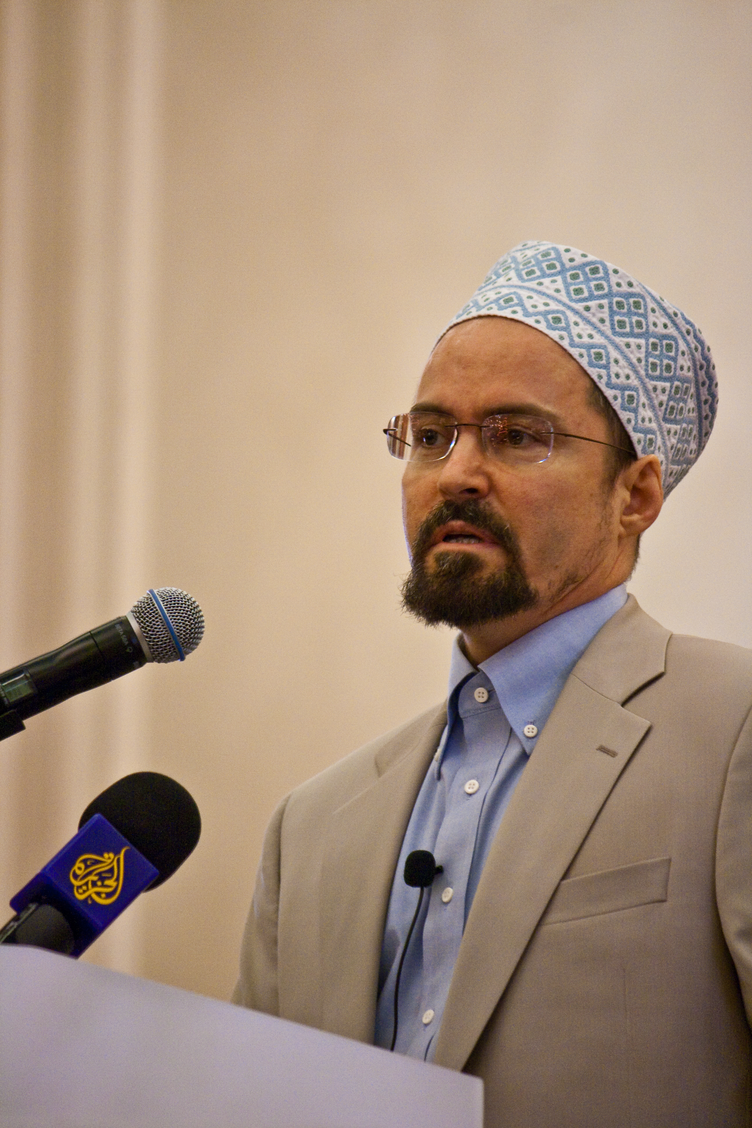 Hamza Yusuf, the renowned American Muslim leader, speaks on education and diversity at La Cigale hotel in Doha, Qatar as part of the 6th annual Doha Academy Education Conference.